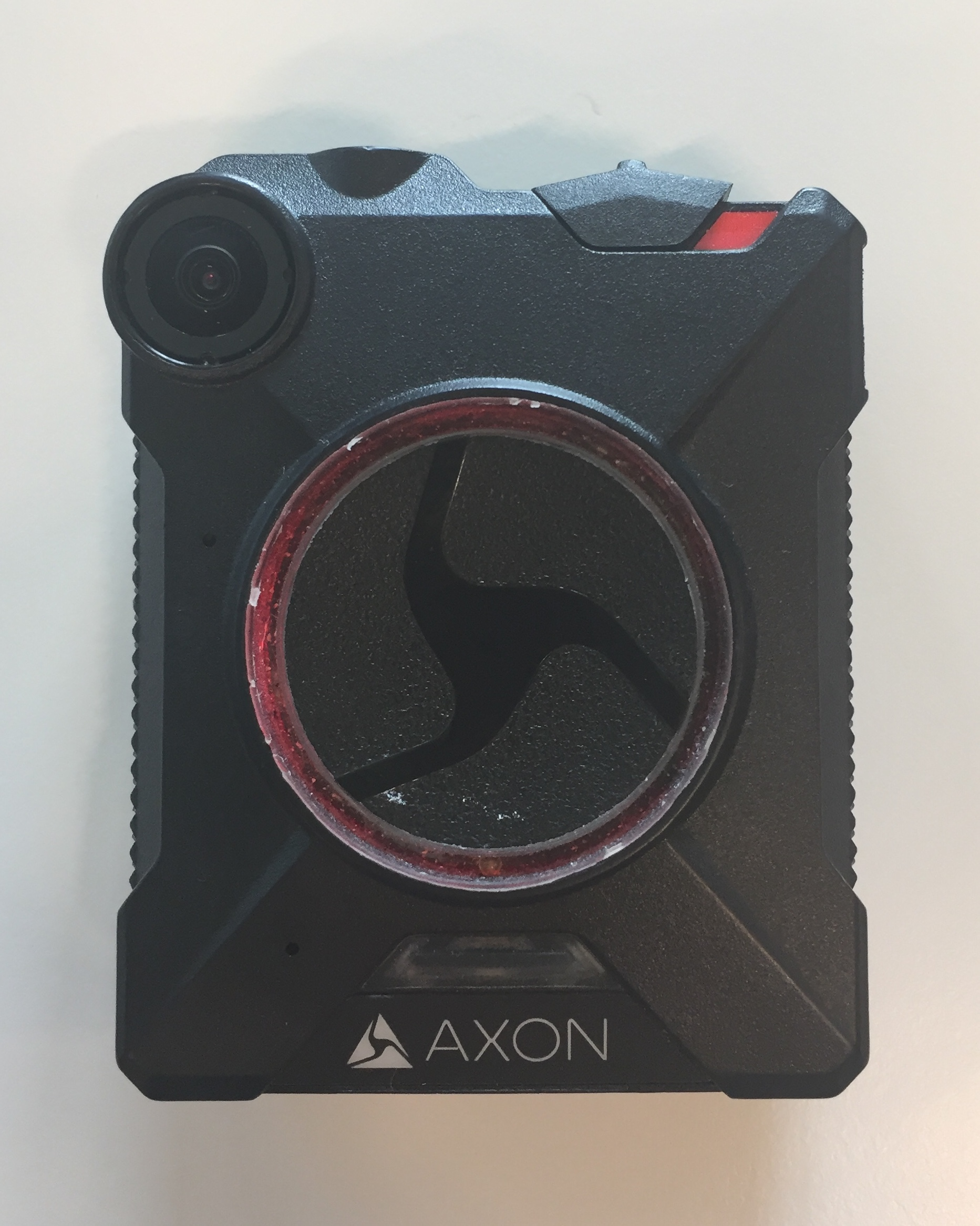 Axon Body 2 by Taser